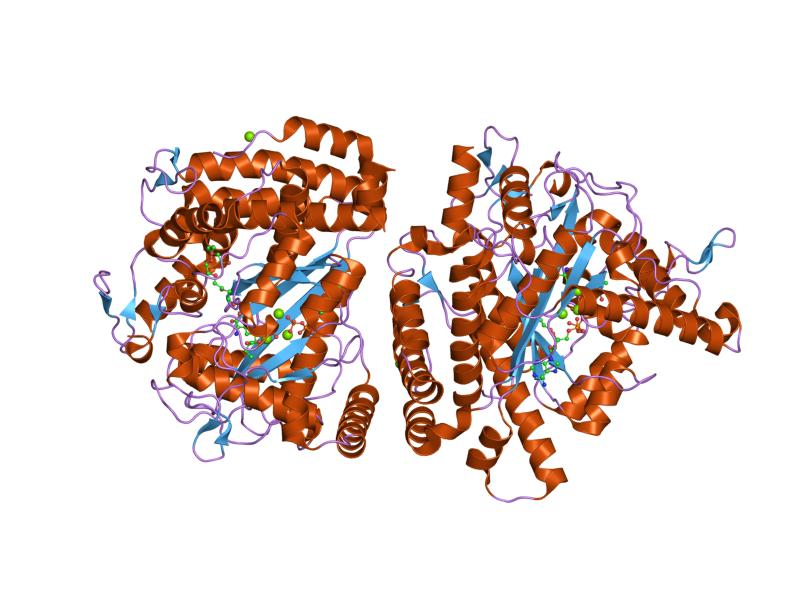 Cartoon representation of the molecular structure of protein registered with 1va6 code.